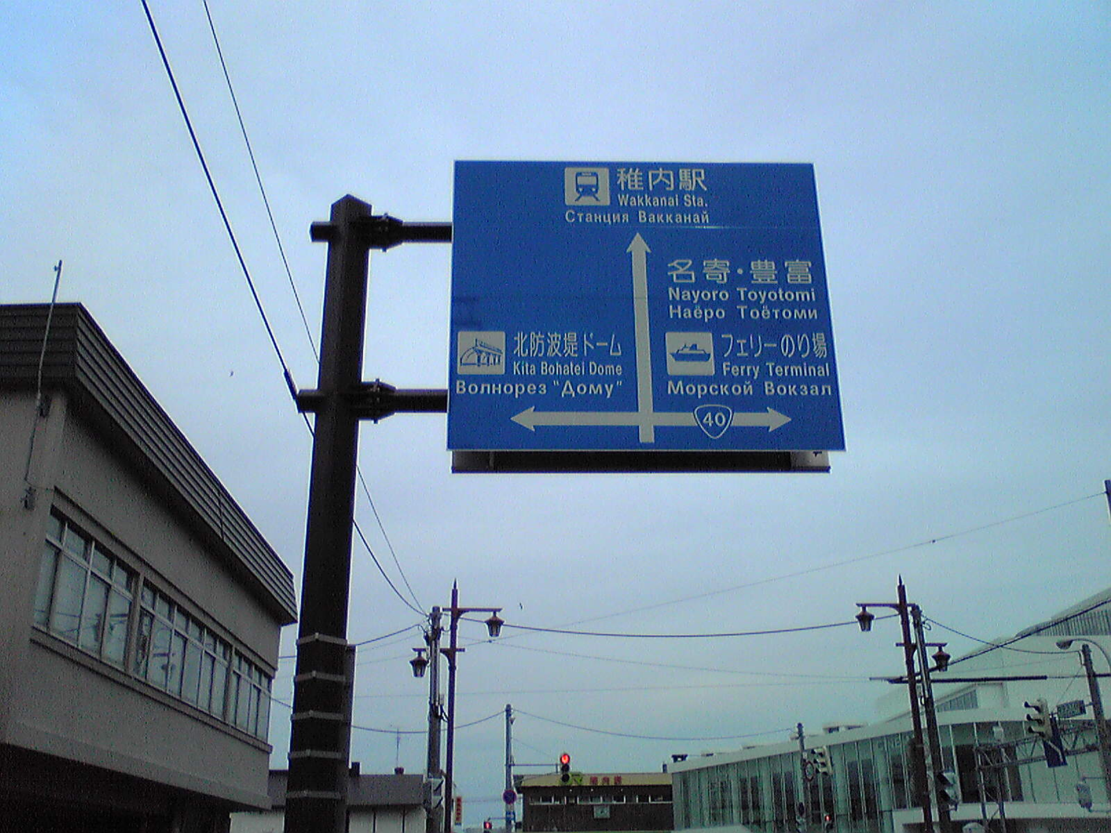 Road traffic sign with Russian, Wakkanai, Hokkaido, Japan.